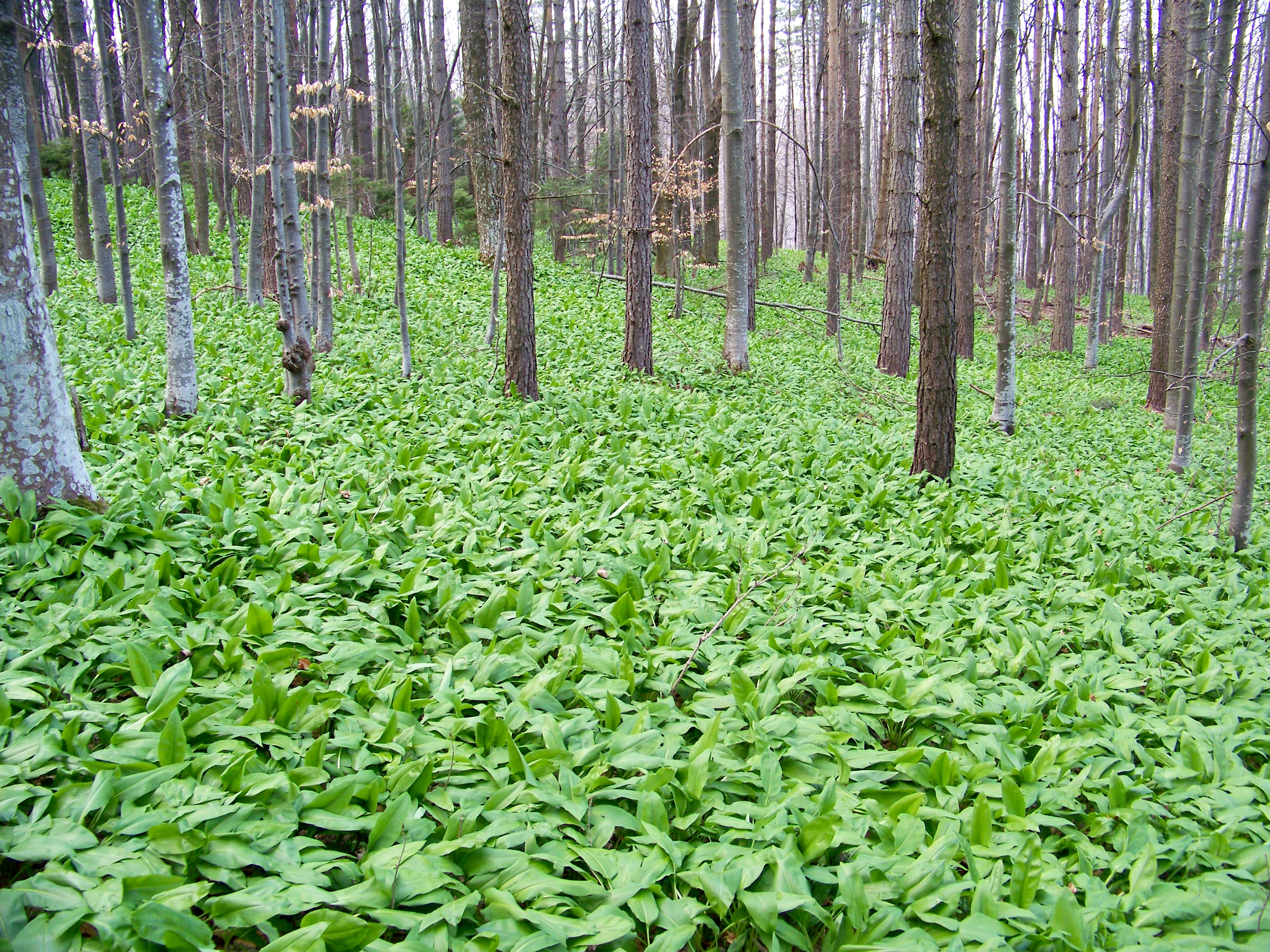 Forest Ramsons in Stara Planina